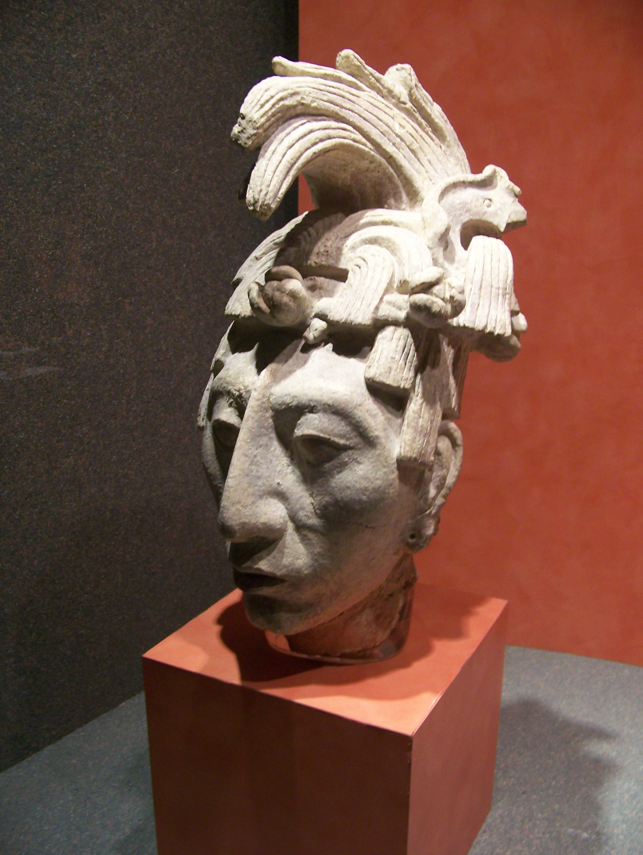 Stucco head of K'inich Janaab Pakal I ( 603-683 AD ), king of Palenque. National Museum of Anthropology, Mexico-City.